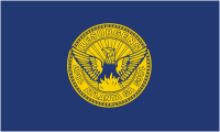 Flag of the city of Atlanta, Georgia